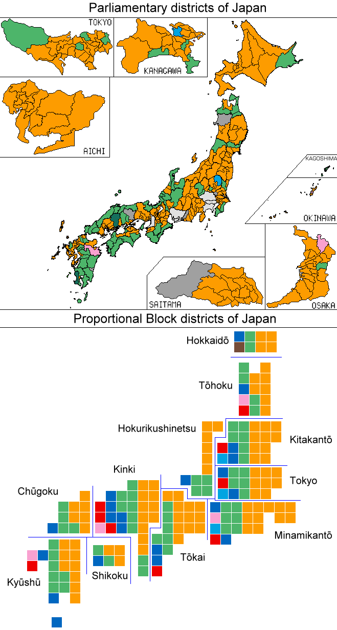 Map of seats won in the 2009 Japanese general election by party Ruling coalition: Liberal Democratic Party New Komeito DPJ and allies: Democratic Party of Japan Social Democratic Party People's New Party New Party Nippon New Party Daichi Others: Japanese Communist Party Your Party Independents